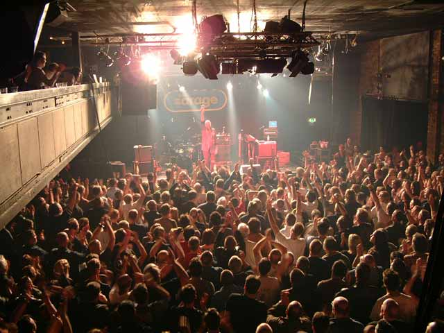 The garage